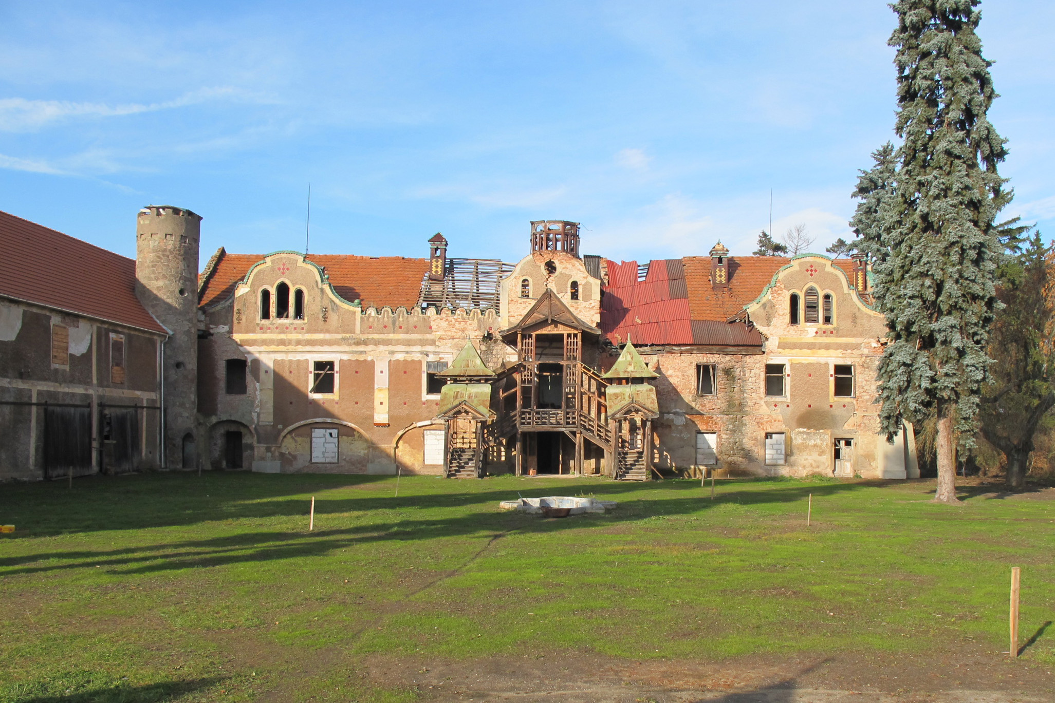 Castle in Lužec